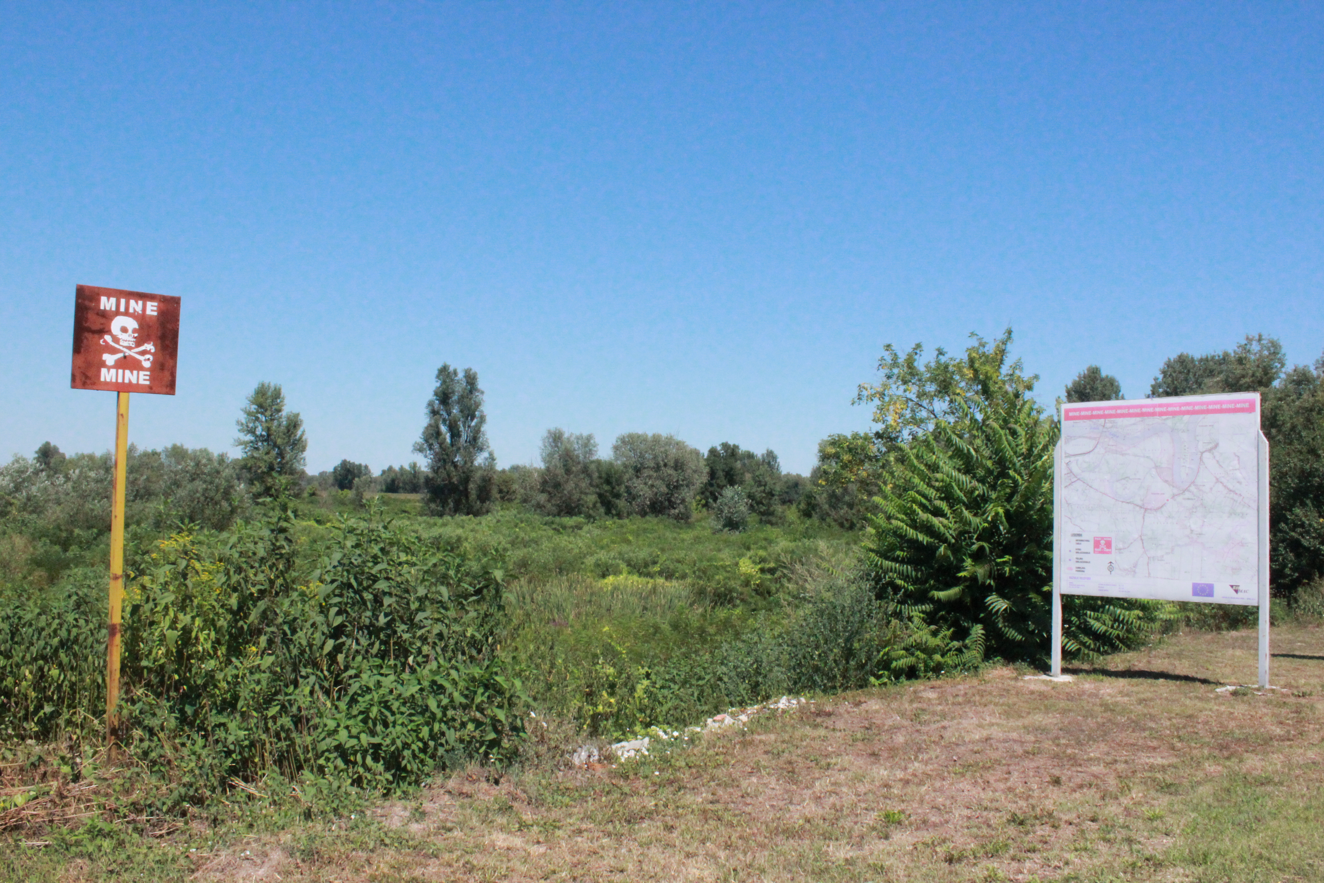 A minefield in in the wetland by the Sava river with an informational sign in Grebnice in the year 2017